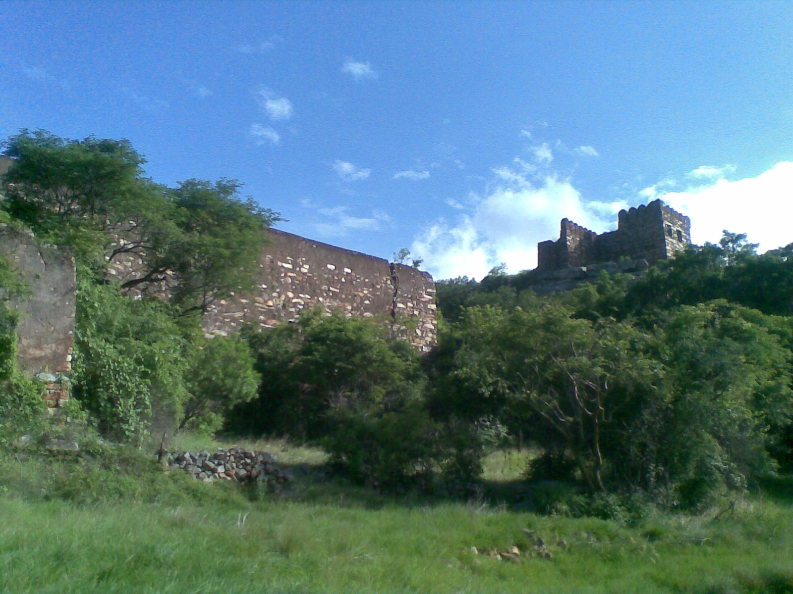 Udayagiri Fort, Udayagiri, Nellore District, A.P.